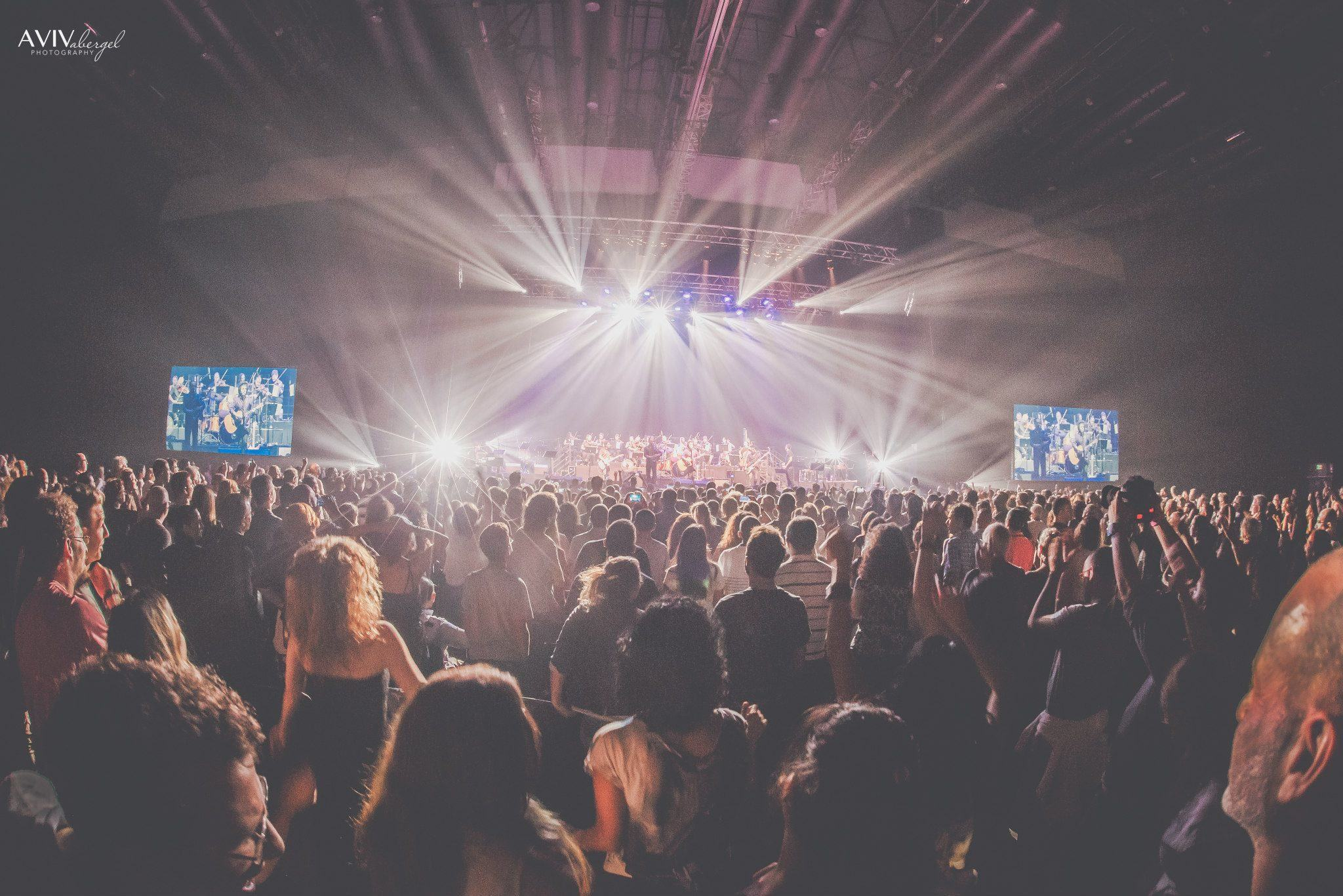 Expo Tel Aviv